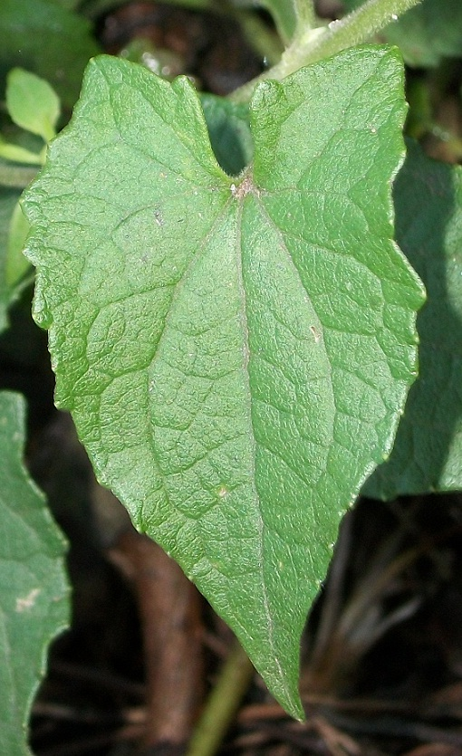 Leaf of Mikania natalensis from Amanzimtoti, KwaZulu-Natal, South Africa.